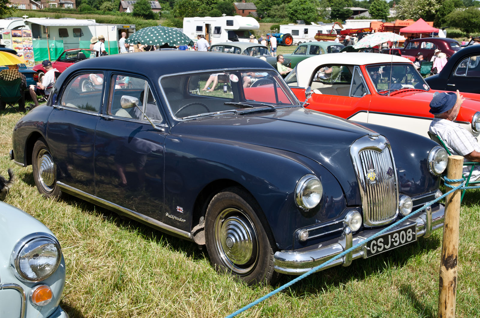 Riley RMH Pathfinder 1962 (DVLA) first registered 17 August 1962, 2443cc Cheshire Steam Fair 14/07/2013